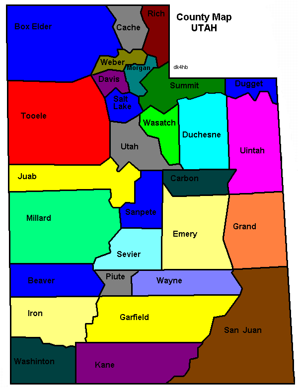 Map of Utah's Counties selfmade graphic by R.Blauert Dk4hb